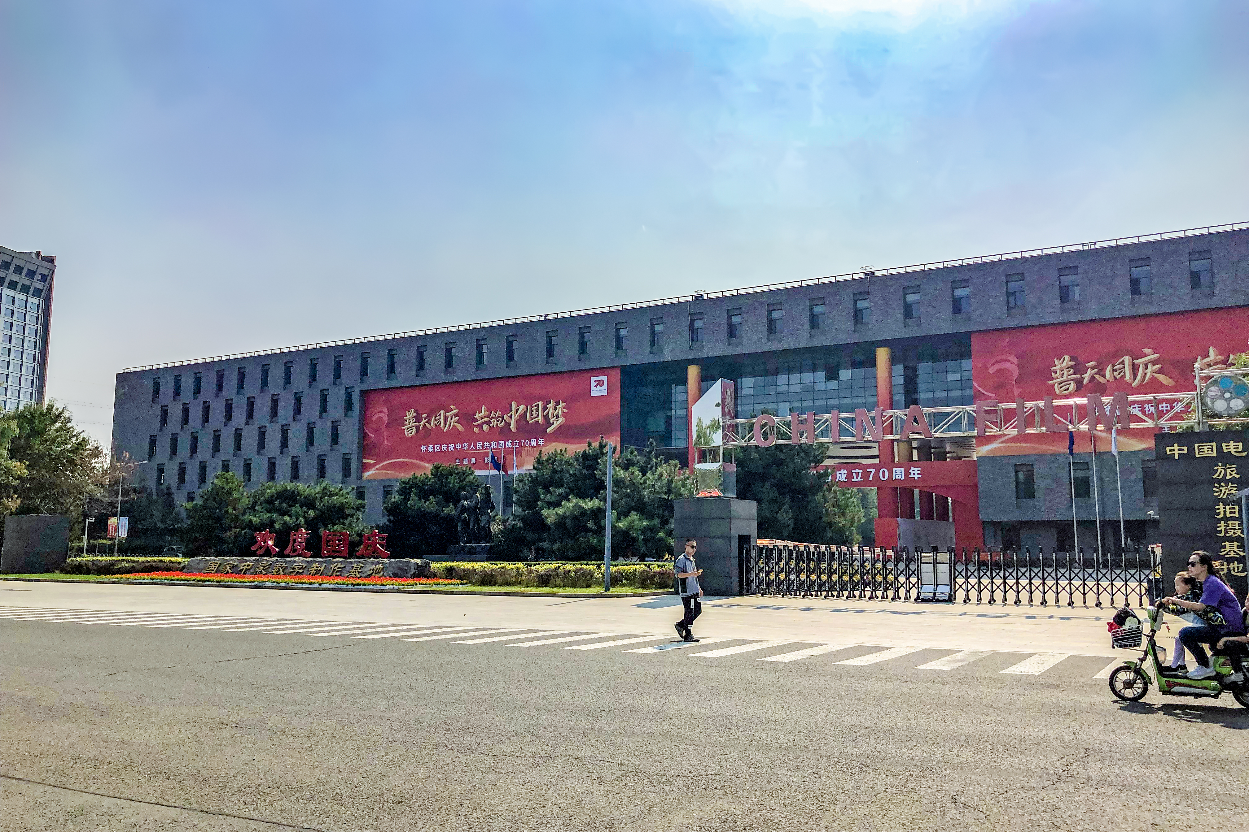 Now the core of CFGC.